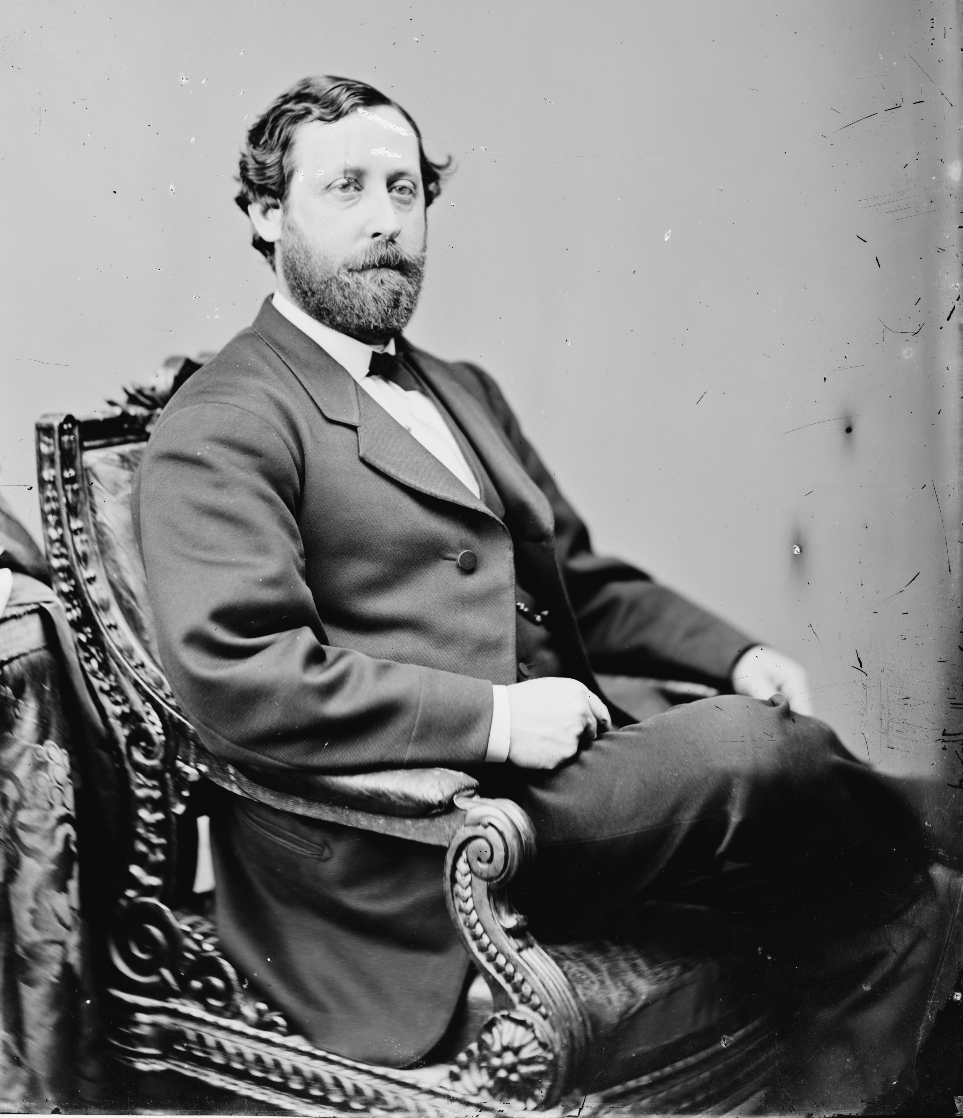 Leonard Myers. Library of Congress description: "Hon. L. Myers. M.C., of PA [?]." (identification based on (C107))